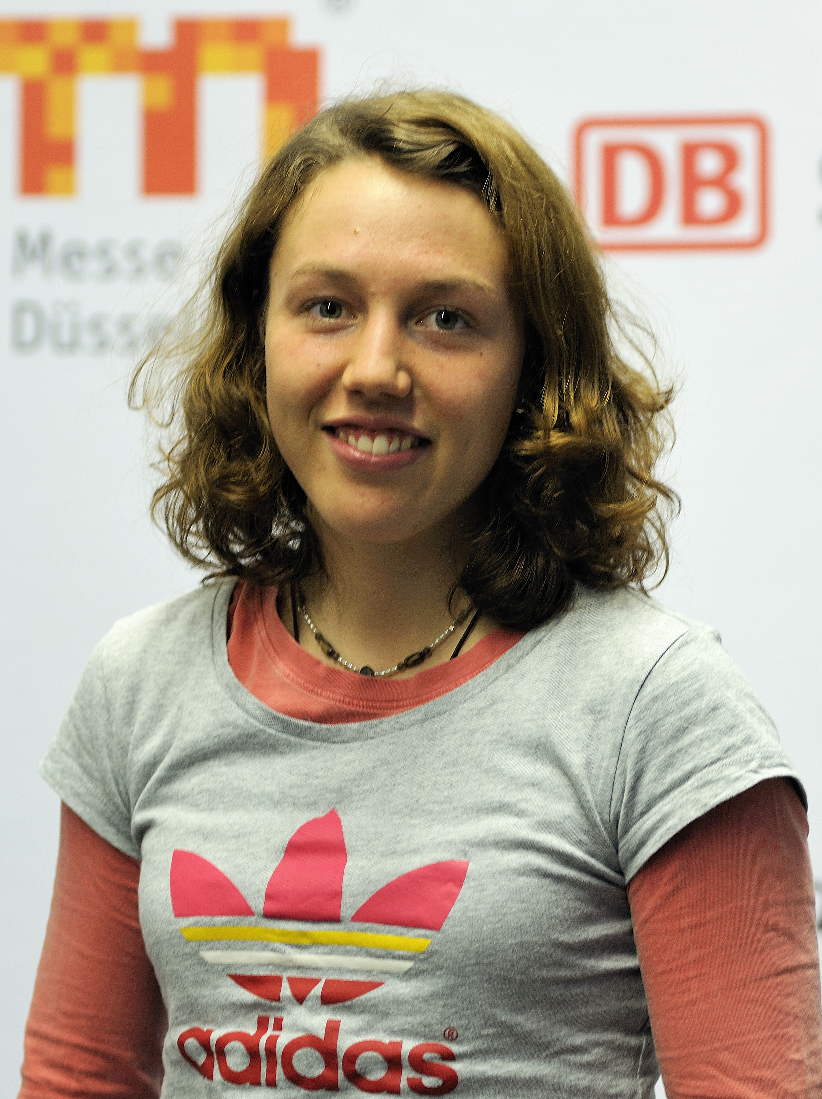 Picture taken in Erding during the investiture of the 2014 German olympic team (project). Laura Dahlmeier.